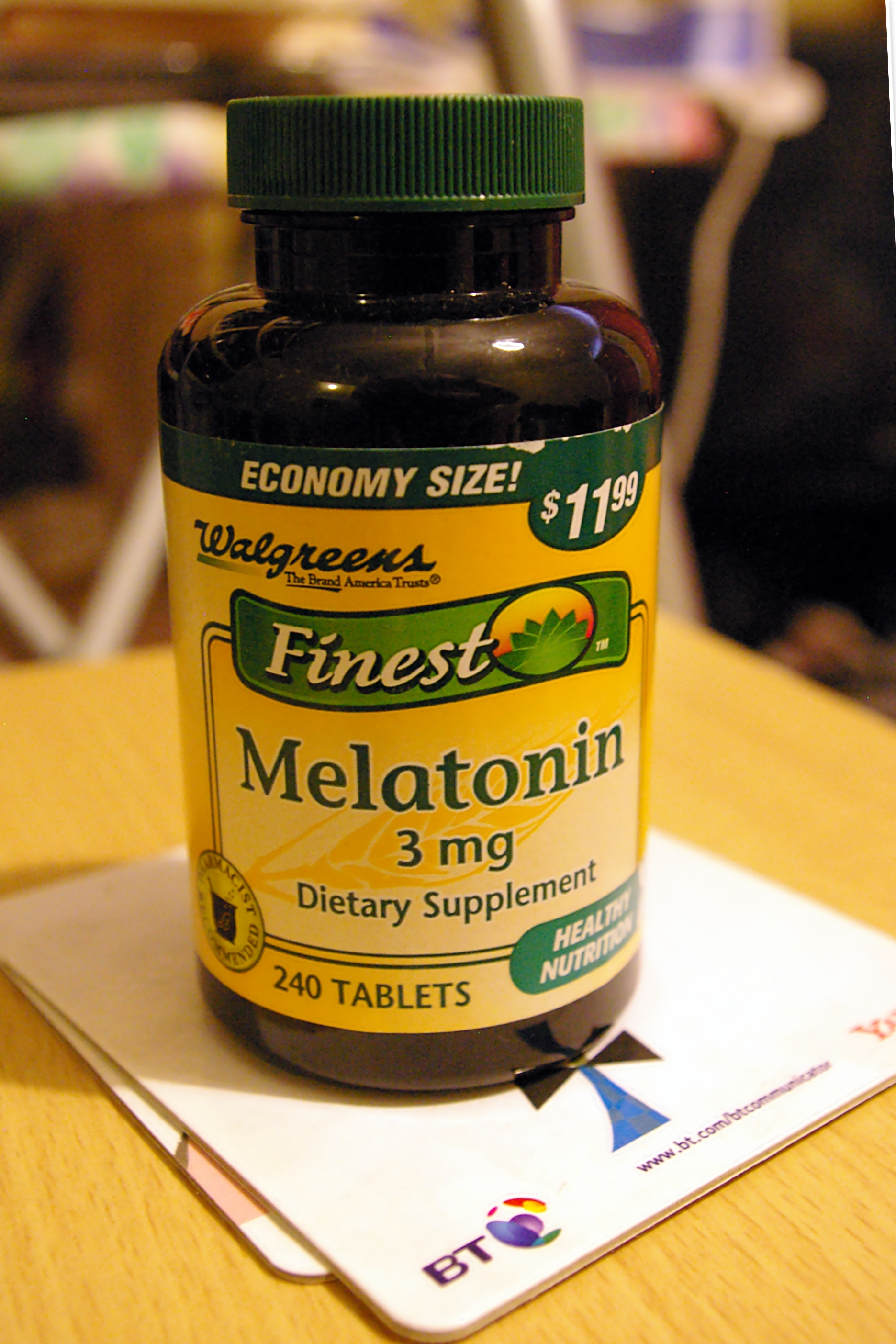 A 240-tablet bottle of melatonin, Walgreens brand.